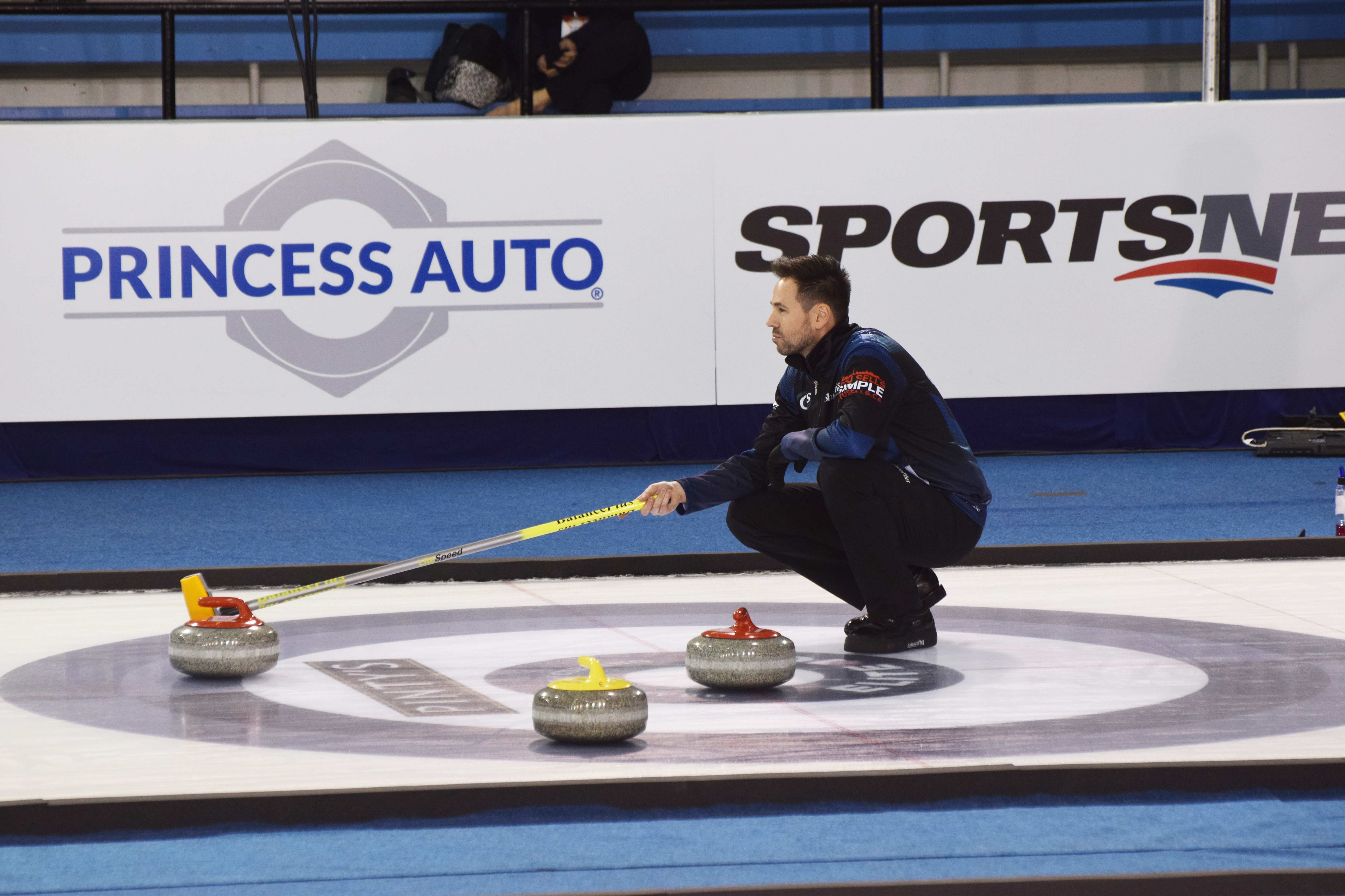 John Epping holds the broom at the 2018 Elite 10 Grand Slam curling event in Winnipeg, Manitoba.